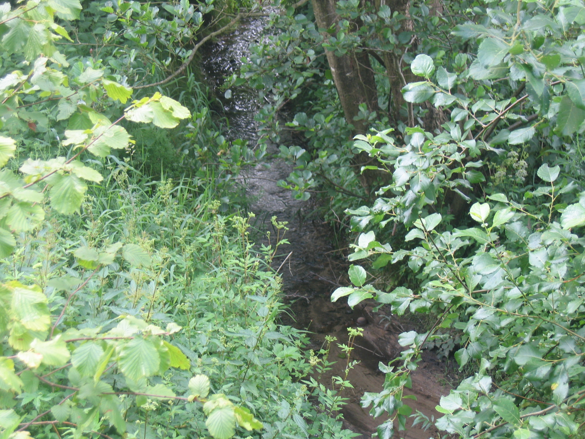 Grenzbach River in Bünde, District of Herford, North Rhine-Westphalia, Germany.